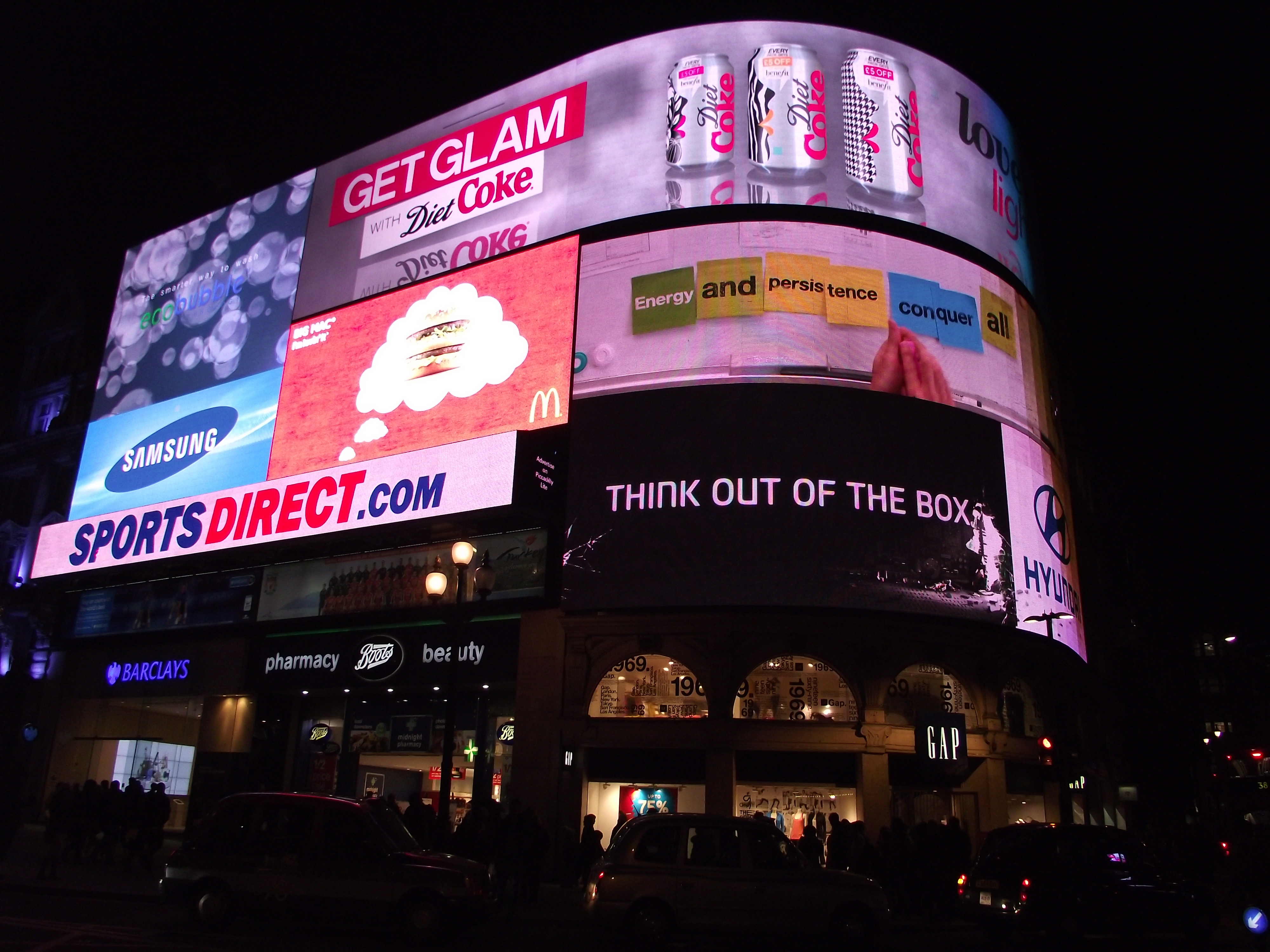 The illuminated signs of Piccadilly Circus by night, January 2012. Traditionally powered by neon lights in the 20th century, they were gradually upgraded to digital LED screens between 2001 and 2011.